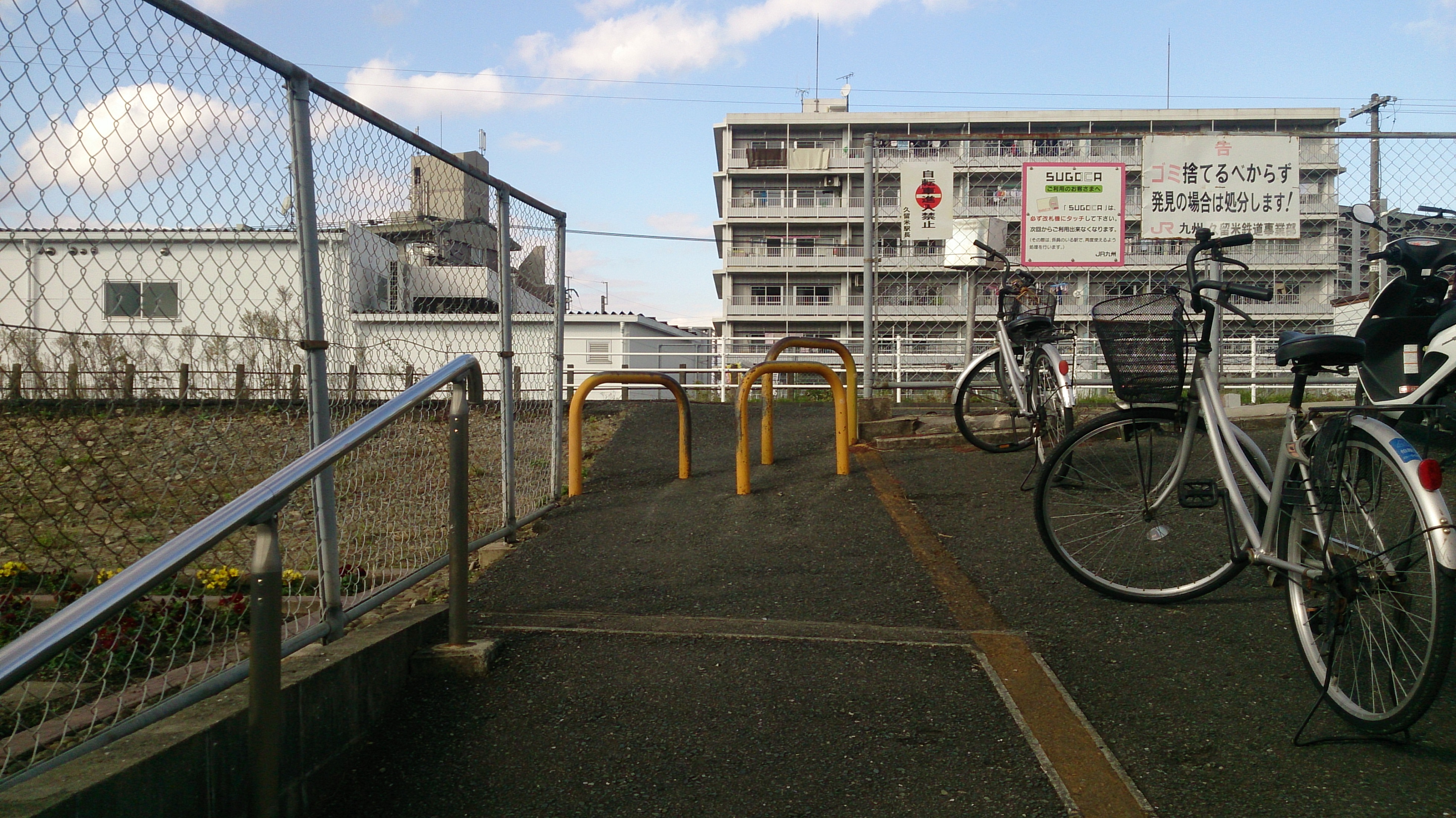 Mii Station South Entrance